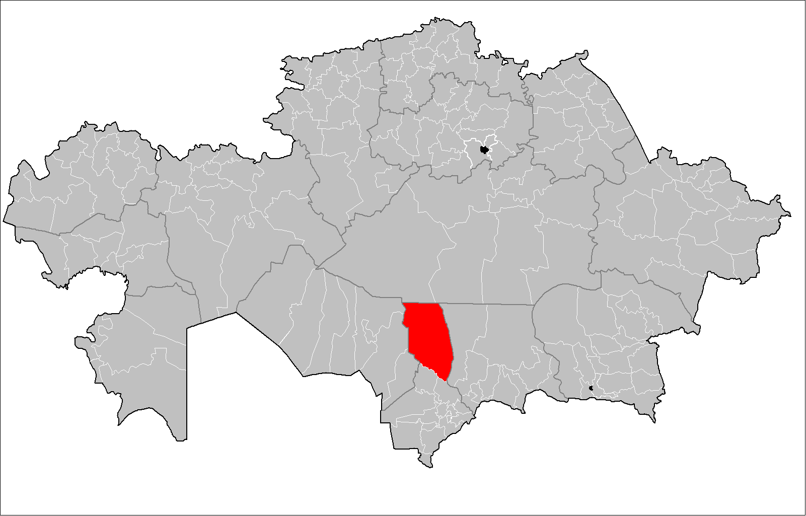 Map of the rayons of Kazakhstan. Created by Rarelibra 16:49, 3 August 2007 (UTC) for public domain use, using MapInfo Professional v8.5 and various mapping resources.